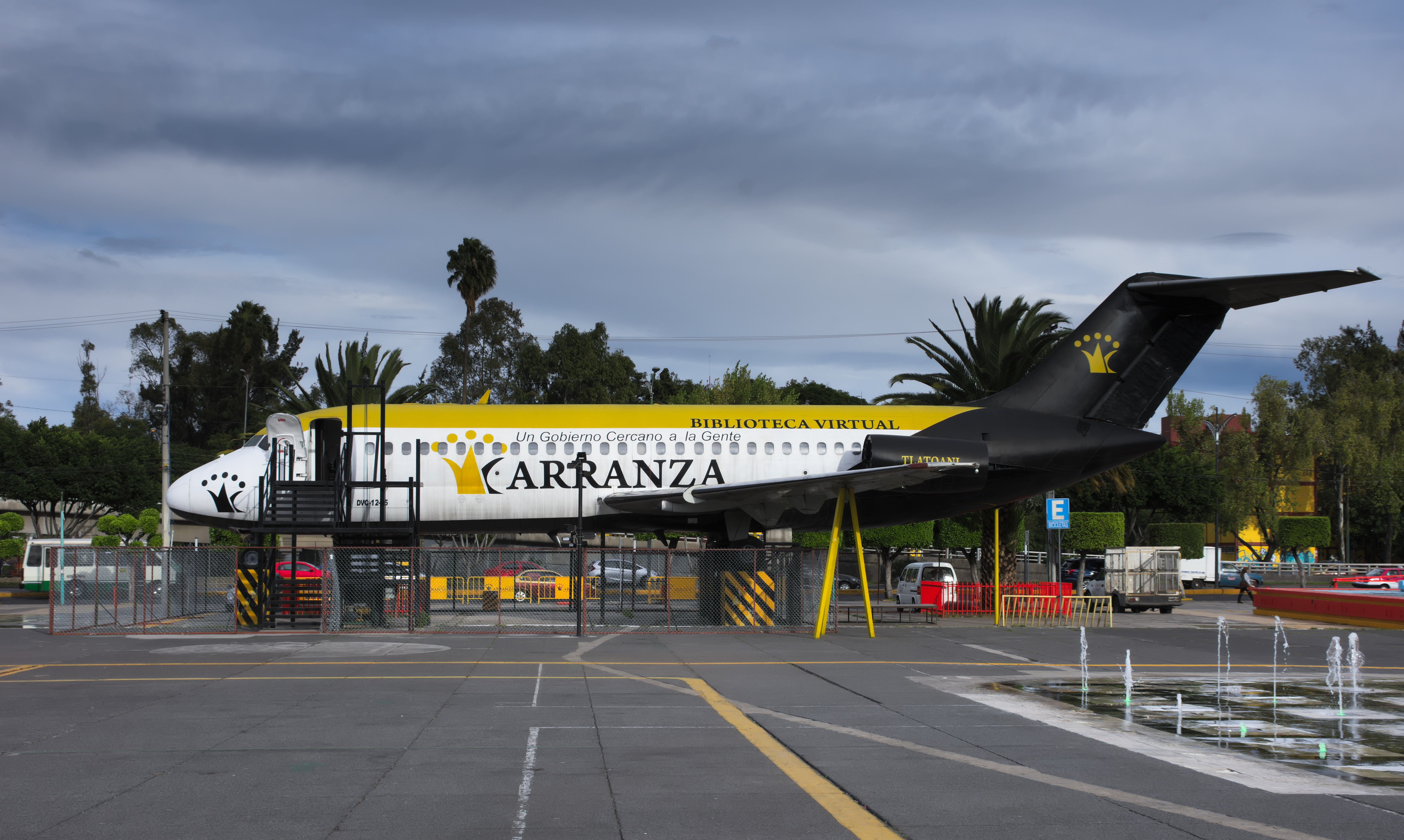 Virtual library in Mexico; the library is installed inside the McDonnel Douglas DC9-14, which was built in 1970 and operated for 30 years